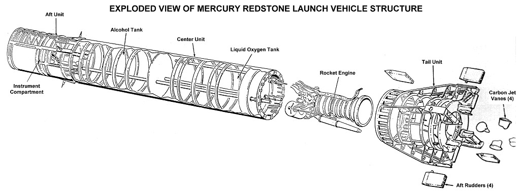 Exploded view of the Mercury-Redstone booster, showing the internal structure.